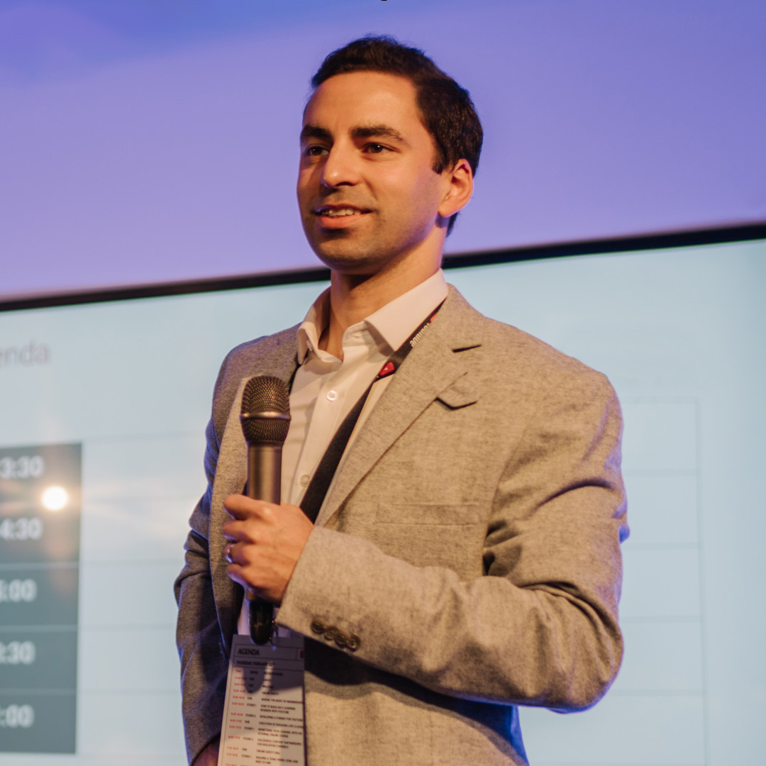 Science communicator Rohin Francis, also known as Medlife Crisis, presenting YouTube Educon, London February 2020.